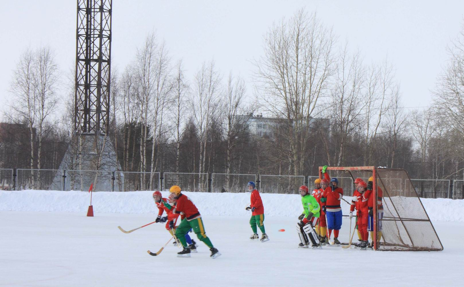 Bandy Championships of of Arkhangelsk Oblast: «Sevmash» (Severodvinsk) - «Unost» (Plesetsk) - 4:3.